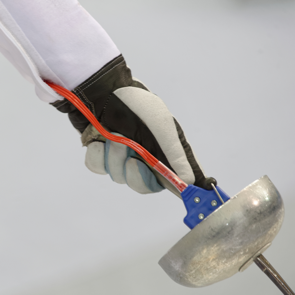 Romania's Ana Maria Brânză holding a French grip épée in the qualification stage of the women's team épée event at the 2015 World Fencing Championships on 17 July 2014 at the Olympic Stadium in Moscow.